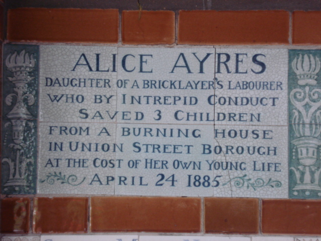 Memorial plaque on the Memorial to Heroic Self Sacrifice, Postman's Park, London. Plaque designed by William De Morgan.